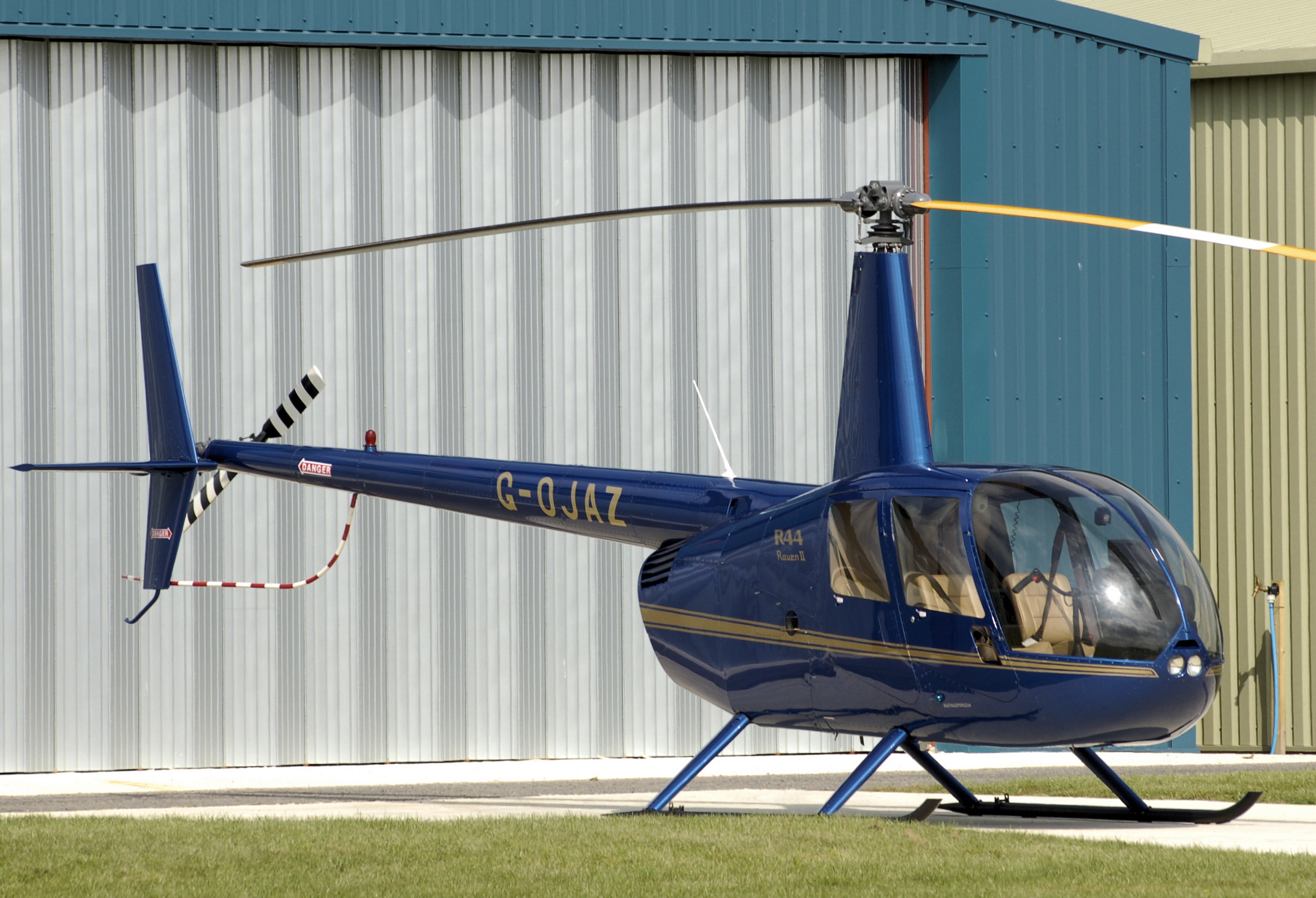 Robinson R44 RavenII helicopter (G-OJAZ), at Kemble Airport Open Day (Gloucestershire, England), September 9th 2007. Photographed by Adrian Pingstone and placed in the public domain.